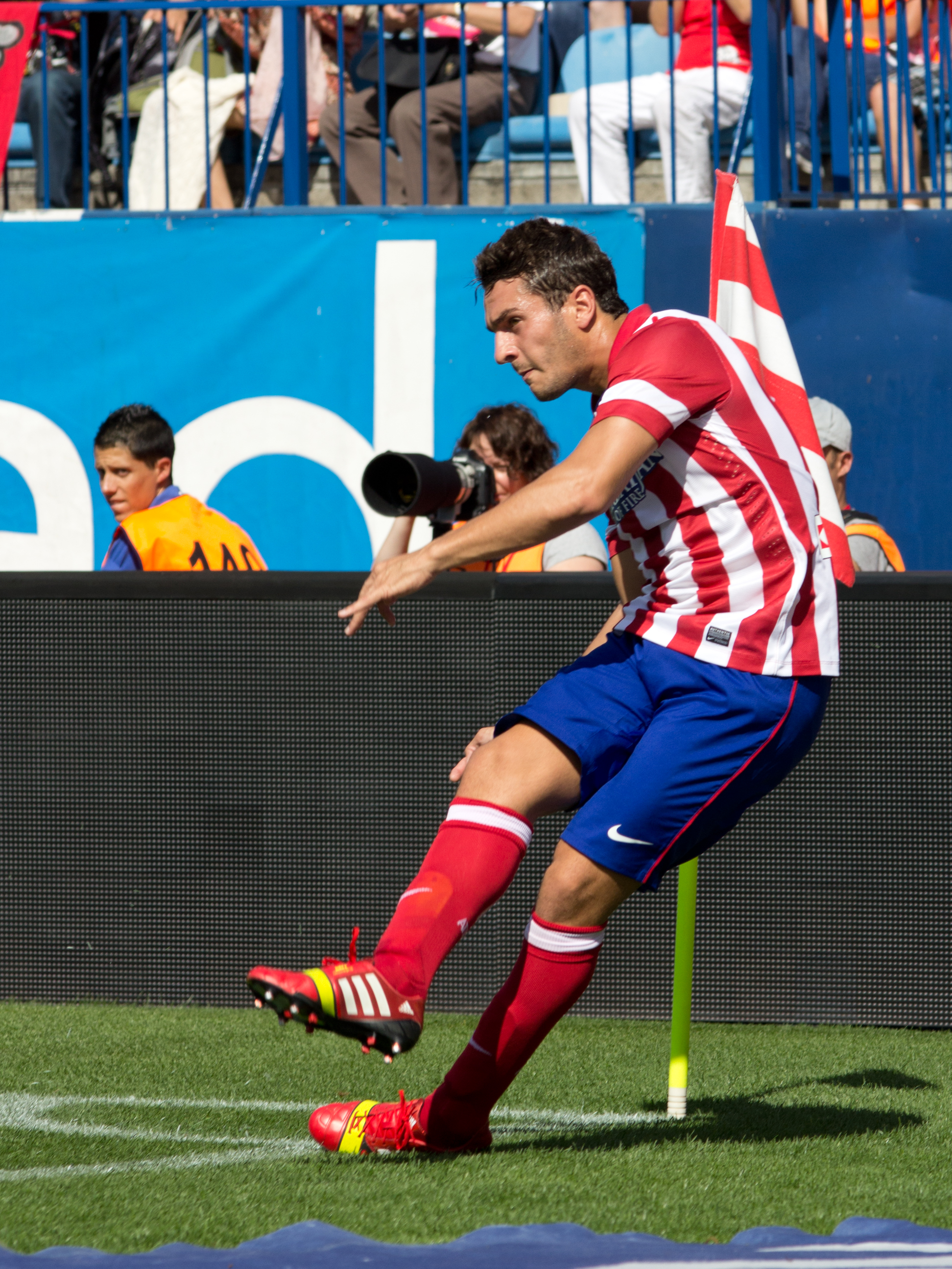 Koke Resurrección, footballer of Atlético de Madrid.